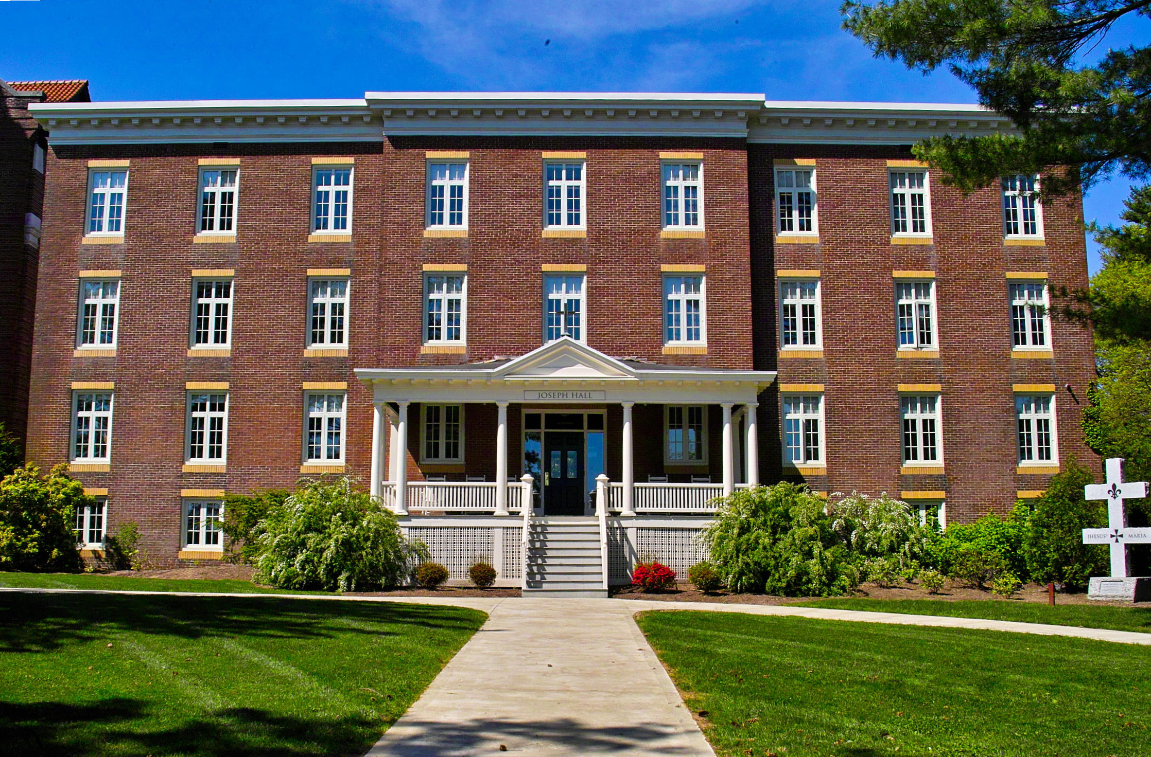 Joseph Hall front 2010